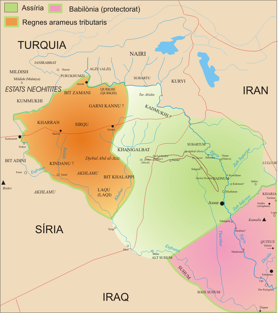 Assyria about 890 aC at end of the Adadnirari II reign